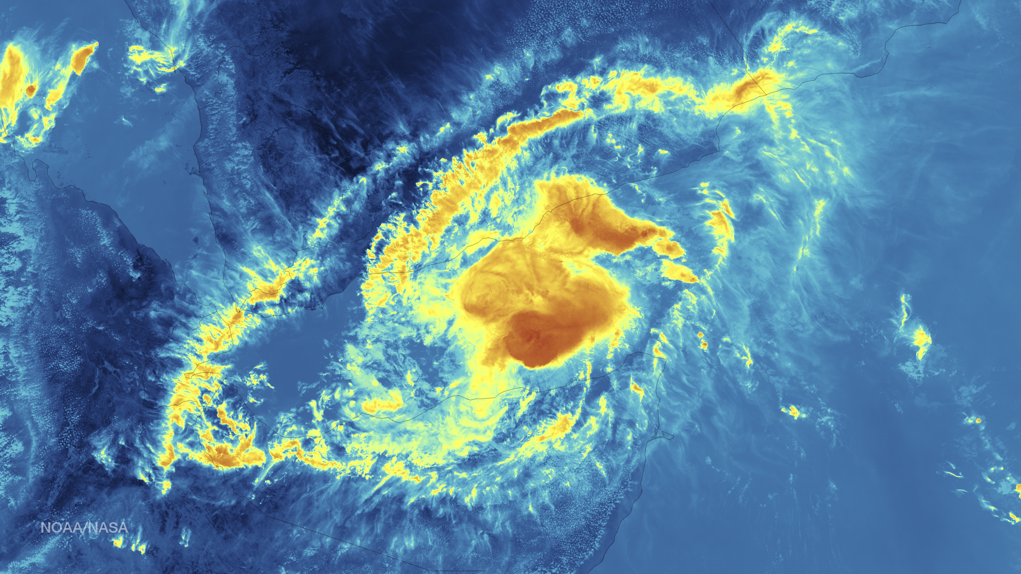 This infrared image was taken by the Suomi NPP satellite's VIIRS instrument around 1005Z on November 9, 2015.